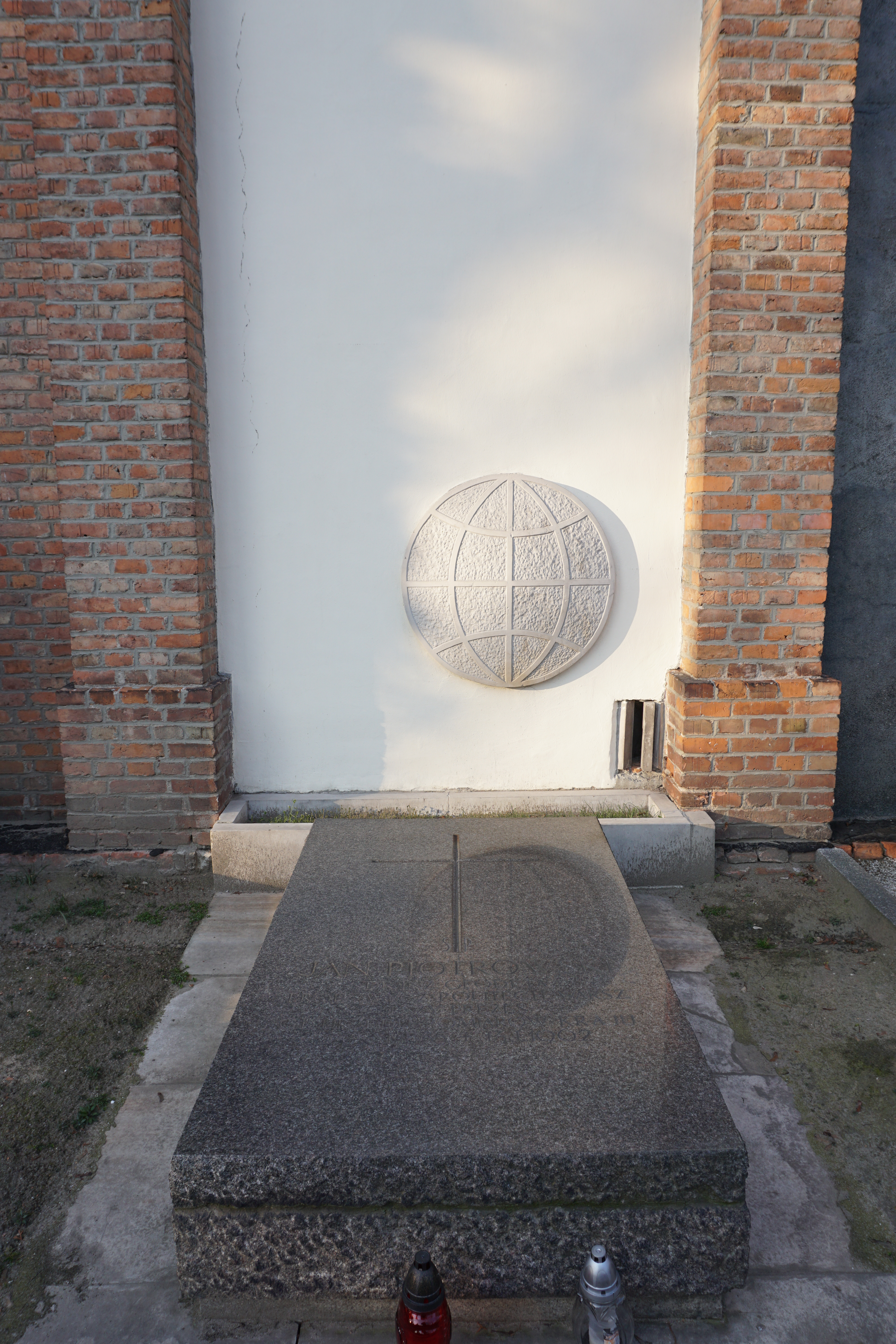 The grave of Jan Adam Piotrowski at the Powązki Cemetery (Avenue of Deserved, grave 114)